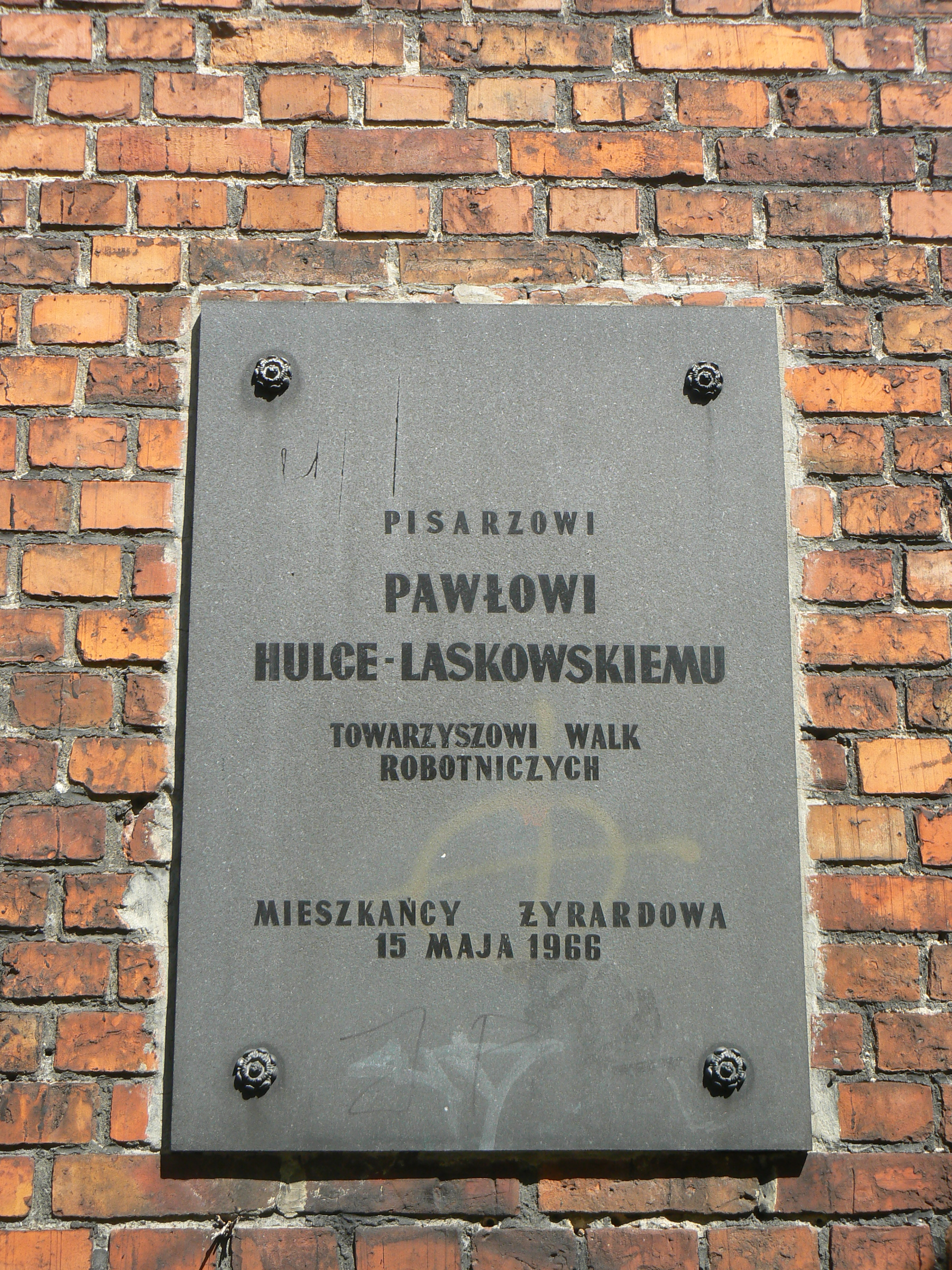 The commemorative plaque commemorating the writer and translator Paweł Hulka-Laskowski in Żyrardów, located on the building at G.Narutowicza st. no. 34.